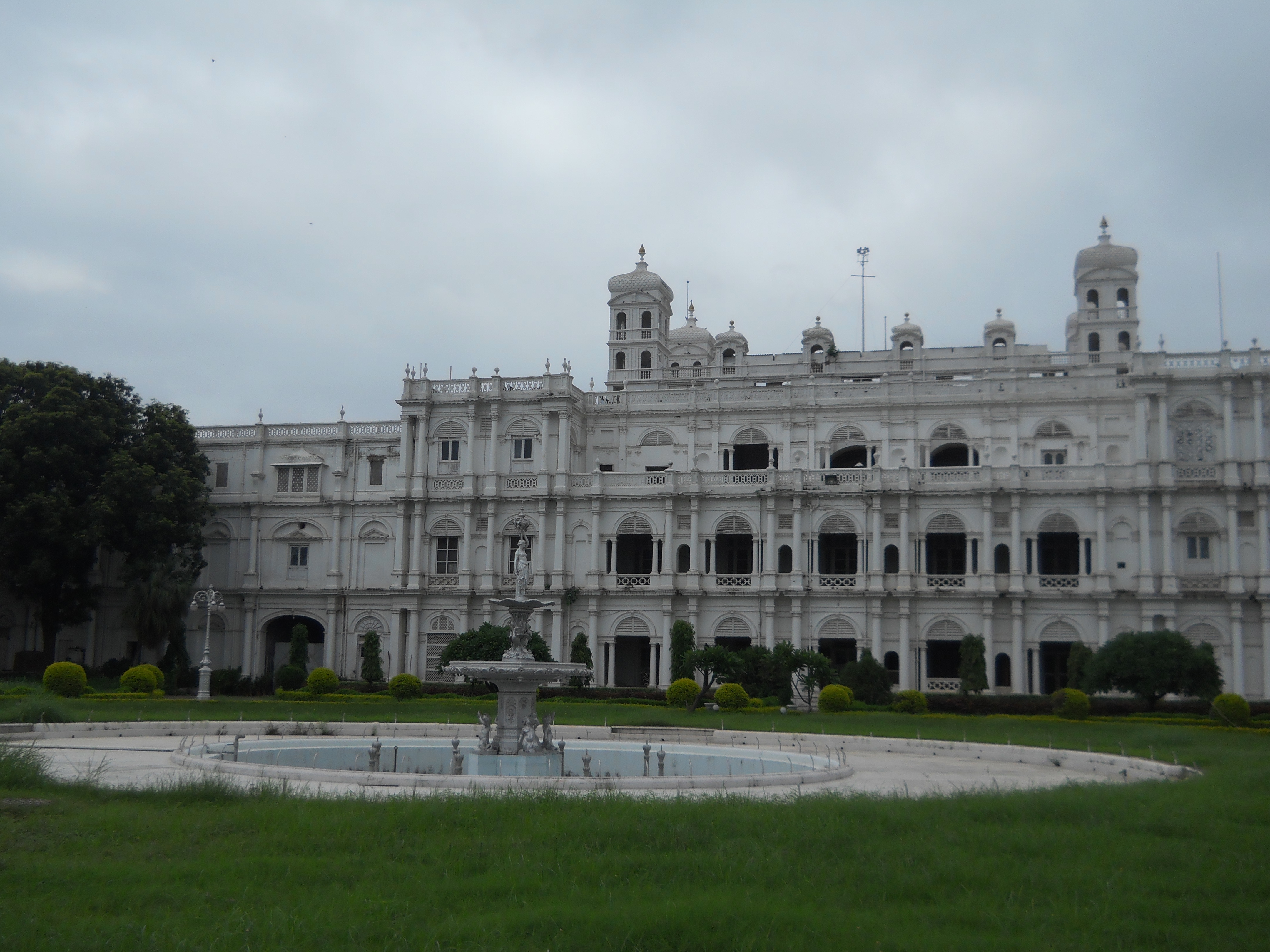 Jai Vilas Palace, the current residence of the royal Maratha family 'Scindia', is an Italianate structure combining the Tuscan and Corinthian architectural modes. About 35 of the rooms have been converted into the Scindia Museum. The main durbar hall is impressive. The Jai Vilas Palace is an opulent Italianate structure, set in carefully laid lawns. Built in 1809, this palace was designed by Lt. Col. Sir Michael Filose. In these rooms, so evocative of a regal lifestyle, the past comes alive.